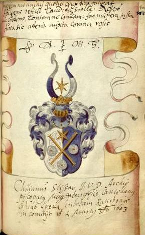 Coat-of-arms of Chilian Stisser, Germany Halle (Saale), about 1610